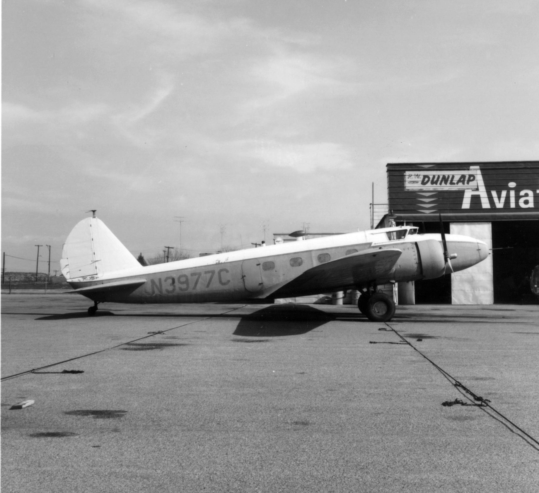 Boeing 247, N3977C